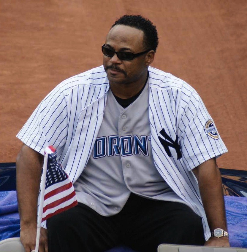 Jesse Barfield at Rickey Henderson's number retirement ceremony, 2009.